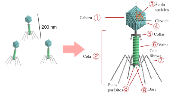 Structure of Bacteriophage T4. # Head # Tail # Nucleic acid # Capsid # Collar # Sheath # Tail fiber # Spikes # Baseplate